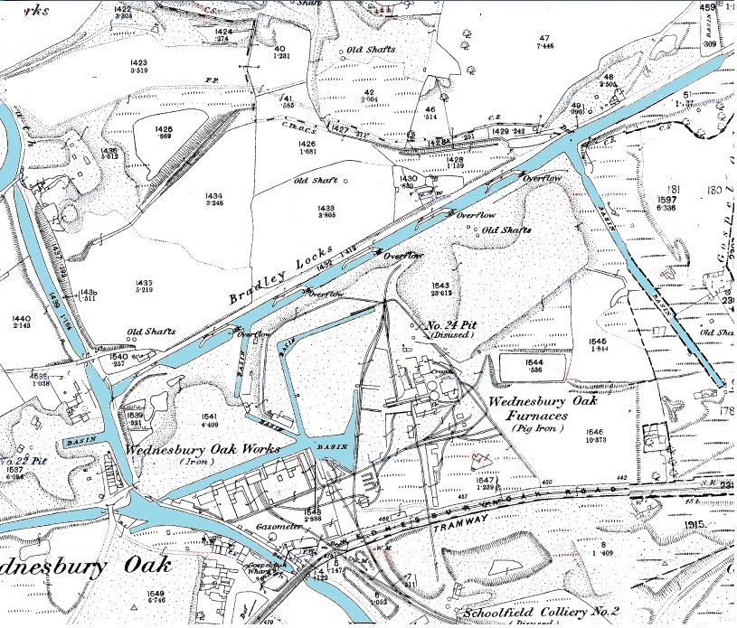 The upper 6 locks of the Bradley Locks Branch, built by the Birmingham Canal Navigations, England in 1849. The map dates from 1890, with colouring added by the uploader.